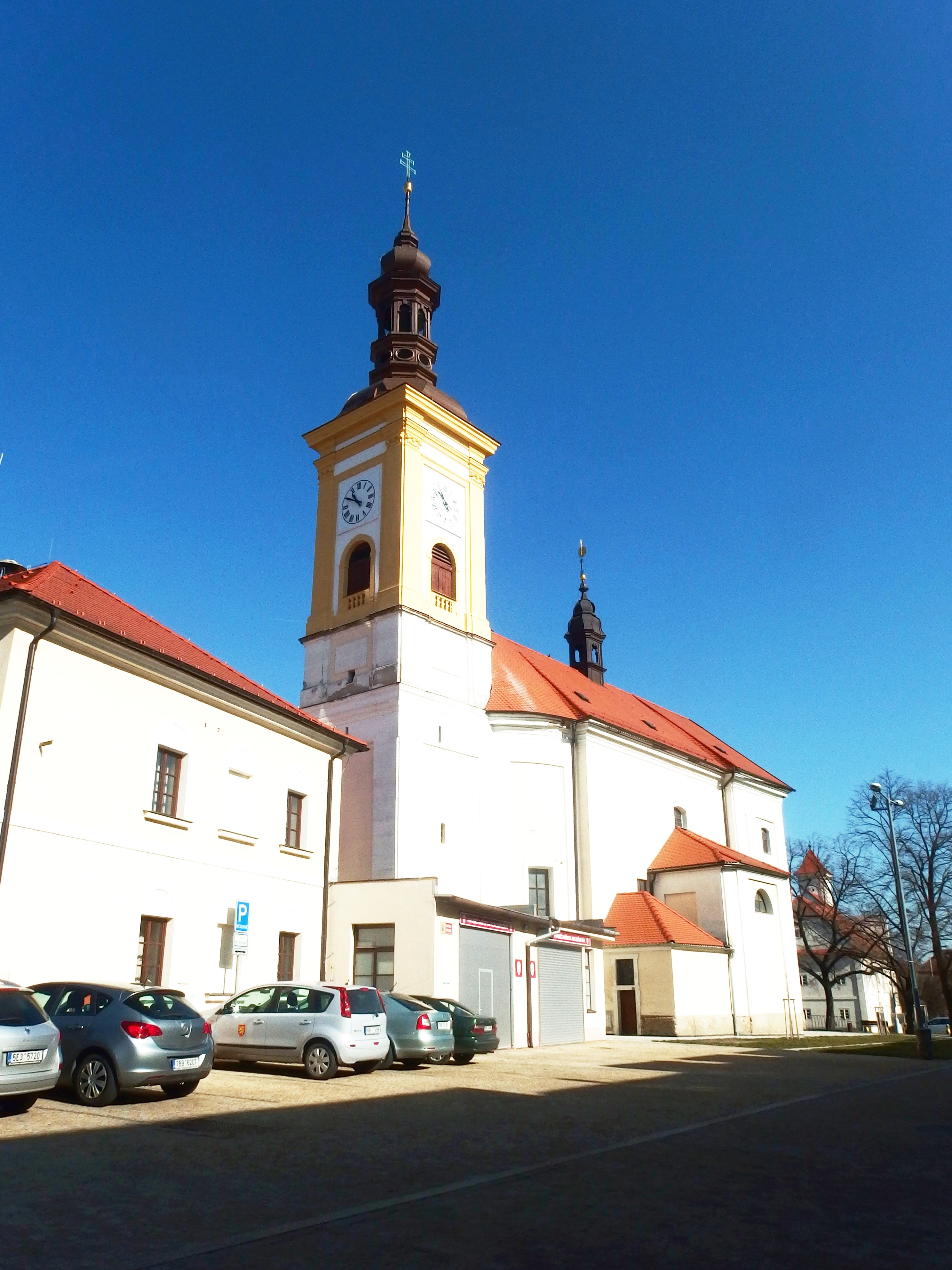 Rousínov, Vyškov District, Czechia.